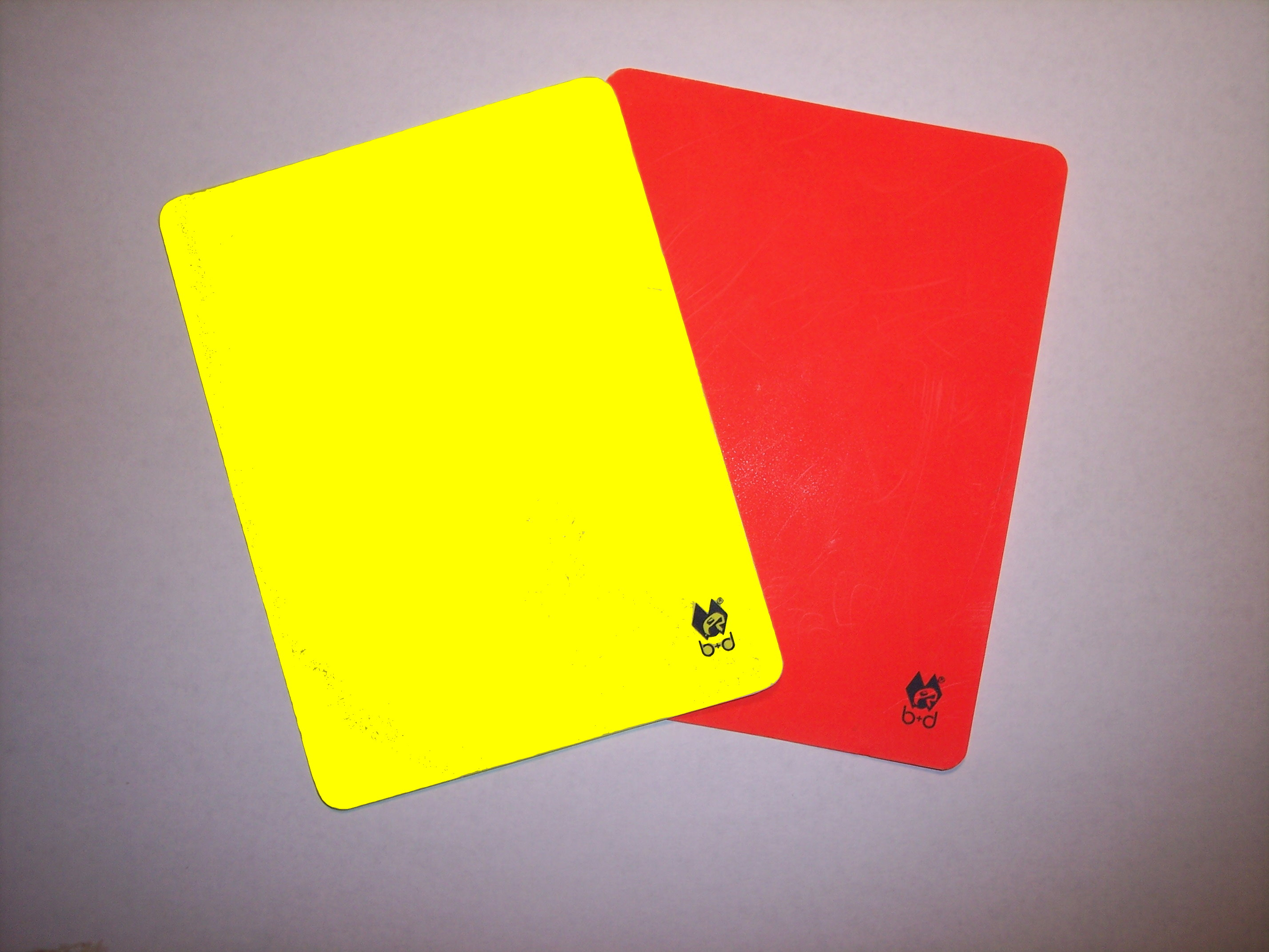 Yellow and red card (Soccer)